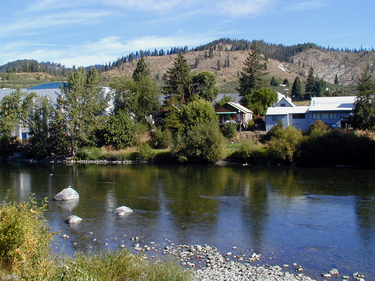 Peshastin, Washington from the opposite bank of the Wenatchee River. The town's apple packing plant on the left.